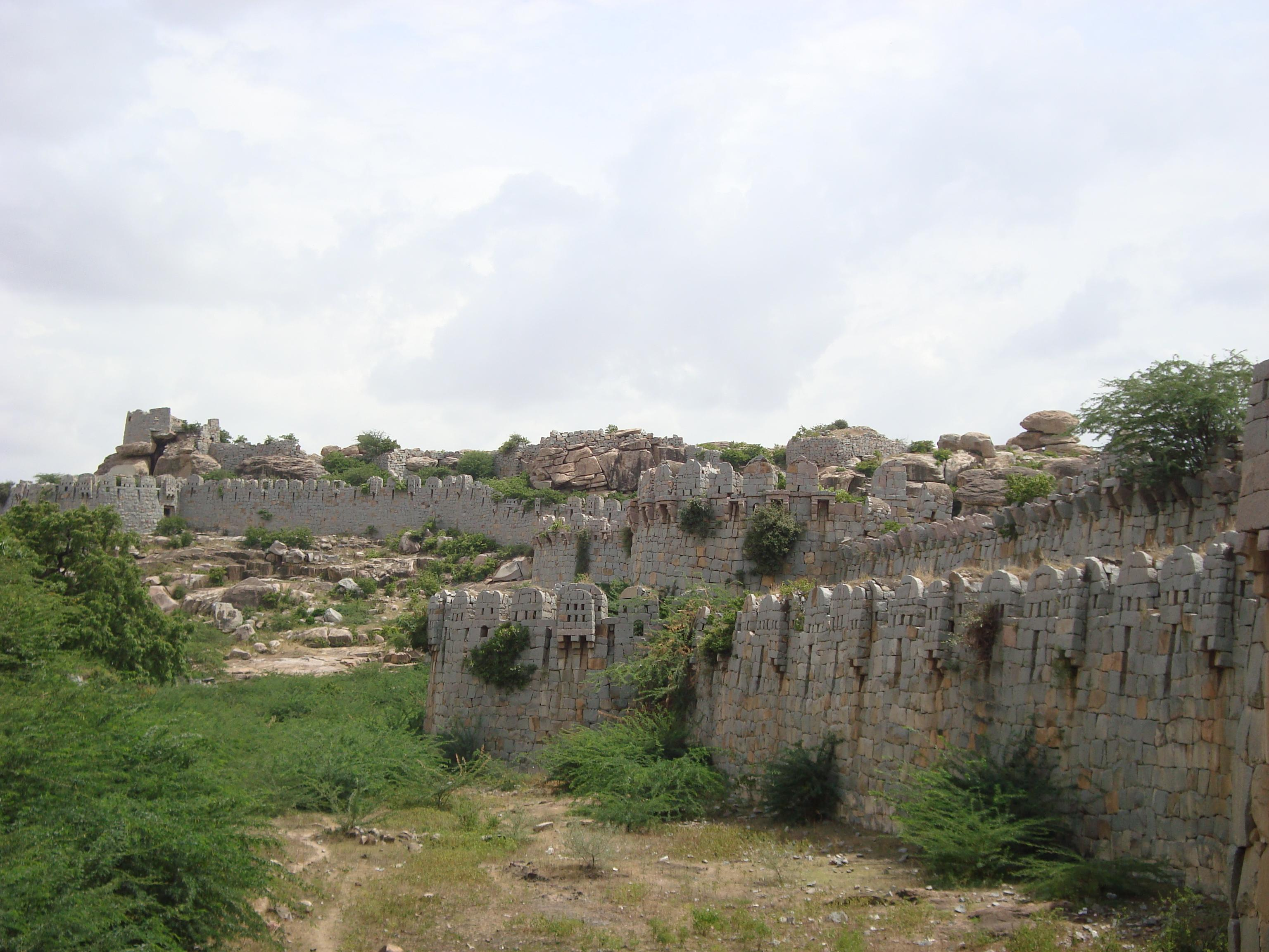 Mudgal fort Source and Author : Manjunath Doddamani, Gajendragad / Hubli, Karnataka, India